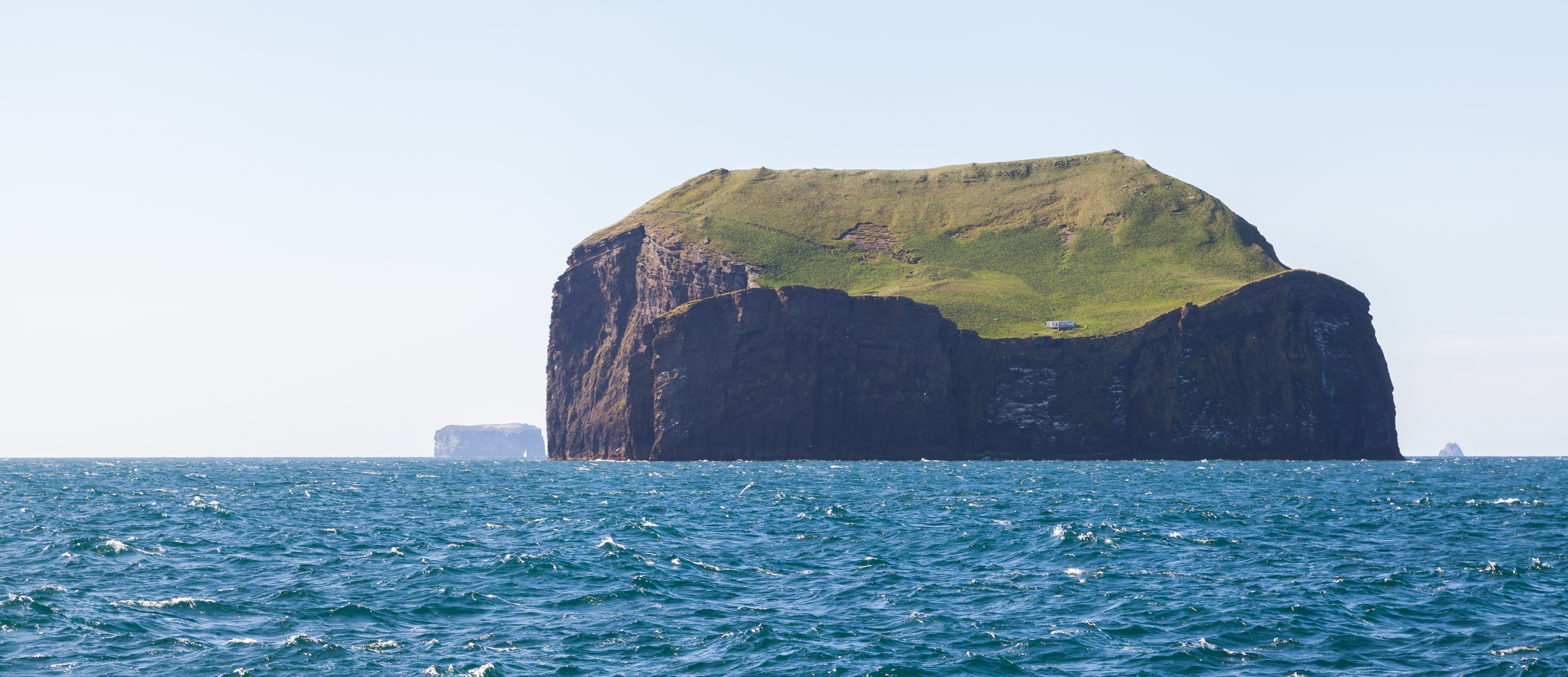 Suðurey island, Westman Islands, Suðurland, Iceland